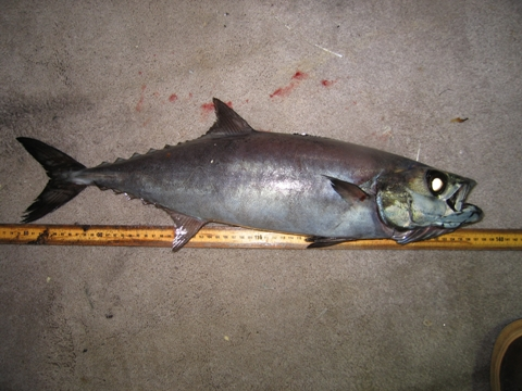 Escolar (Lepidocybium flavobrunneum)